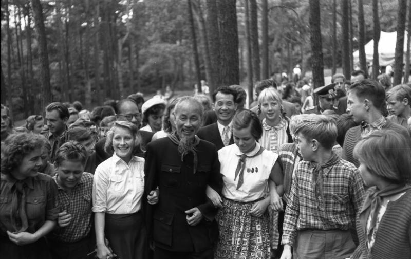 Ho Chi Minh visited LPG, MTS and children's summer camp Staying for a state visit in the German Democratic Republic, the President of the Democratic Republic of Vietnam, Ho Chi Minh, and his entourage on 28 July 1957 visited the Agricultural Production Cooperative "Erster Mai" [First of May] in Tempelfelde (Bernau district), the machine and tractor station in Werneuchen near Bernau and the "Helmuth Just" pioneer camp at lake Wukensee near Beisenthal.